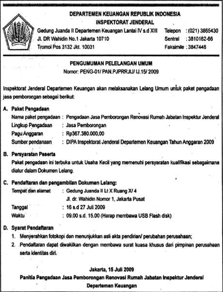 A tender announcement for a Department of Finance project, in 2009, Indonesia. Published as an advert to Media Indonesia.